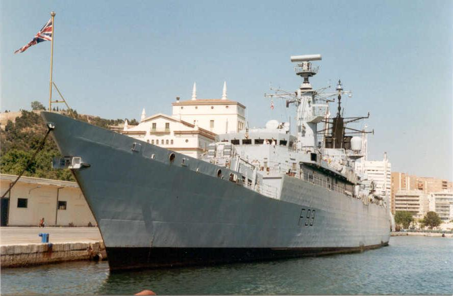 Frigate HMS Beaver (F93) of the Royal Navy.